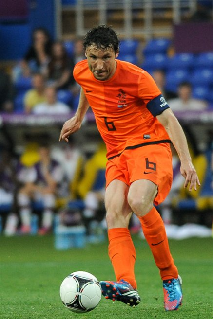 Dutch soccer player Mark van Bommel during a match for the Netherlands.